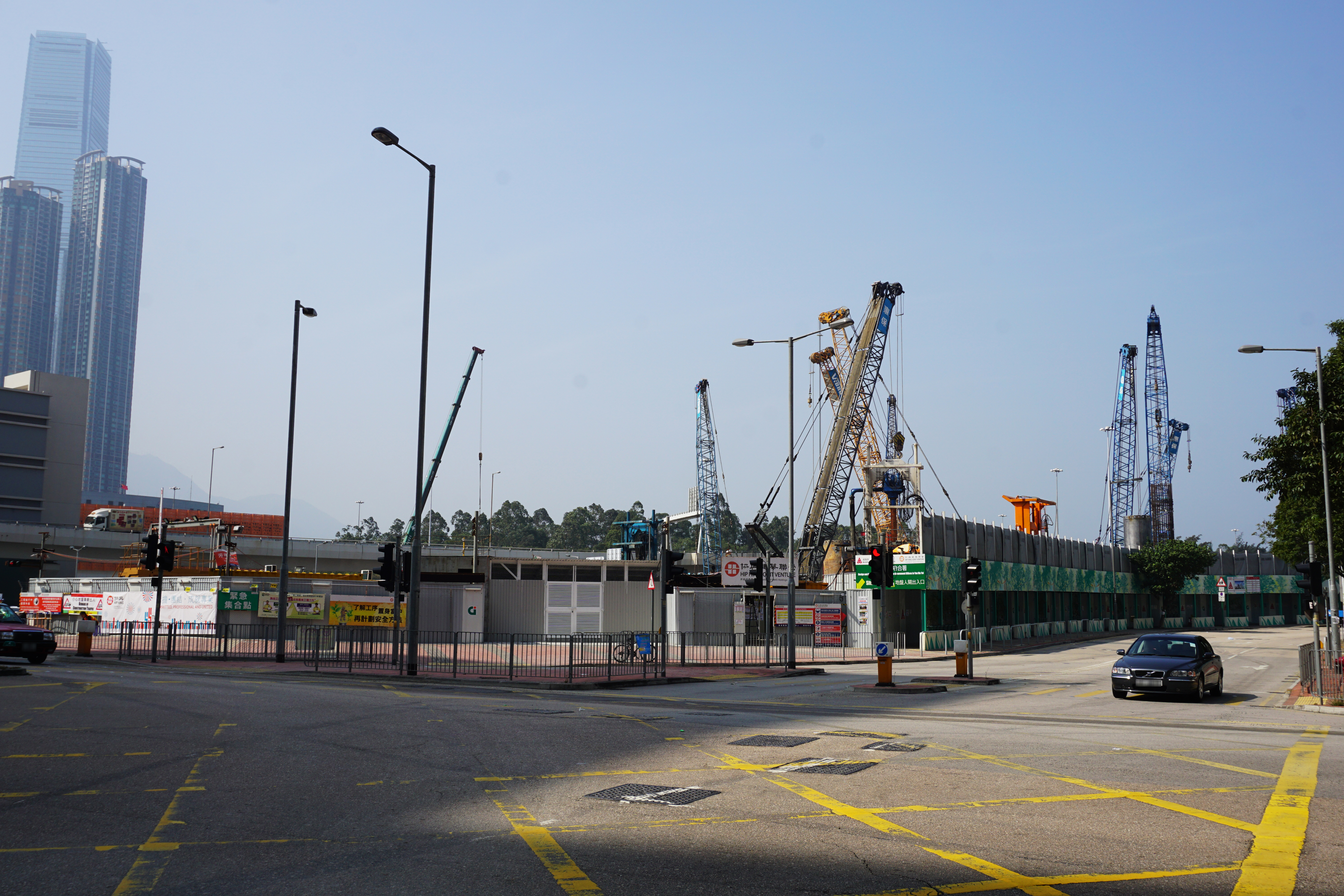 West Kowloon Government Offices in Yau Ma Tei, Hong Kong.